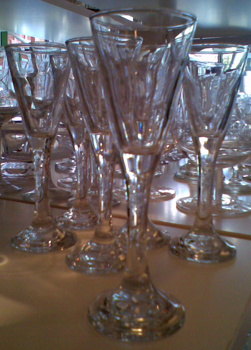 Schnappsglasses from Sweden